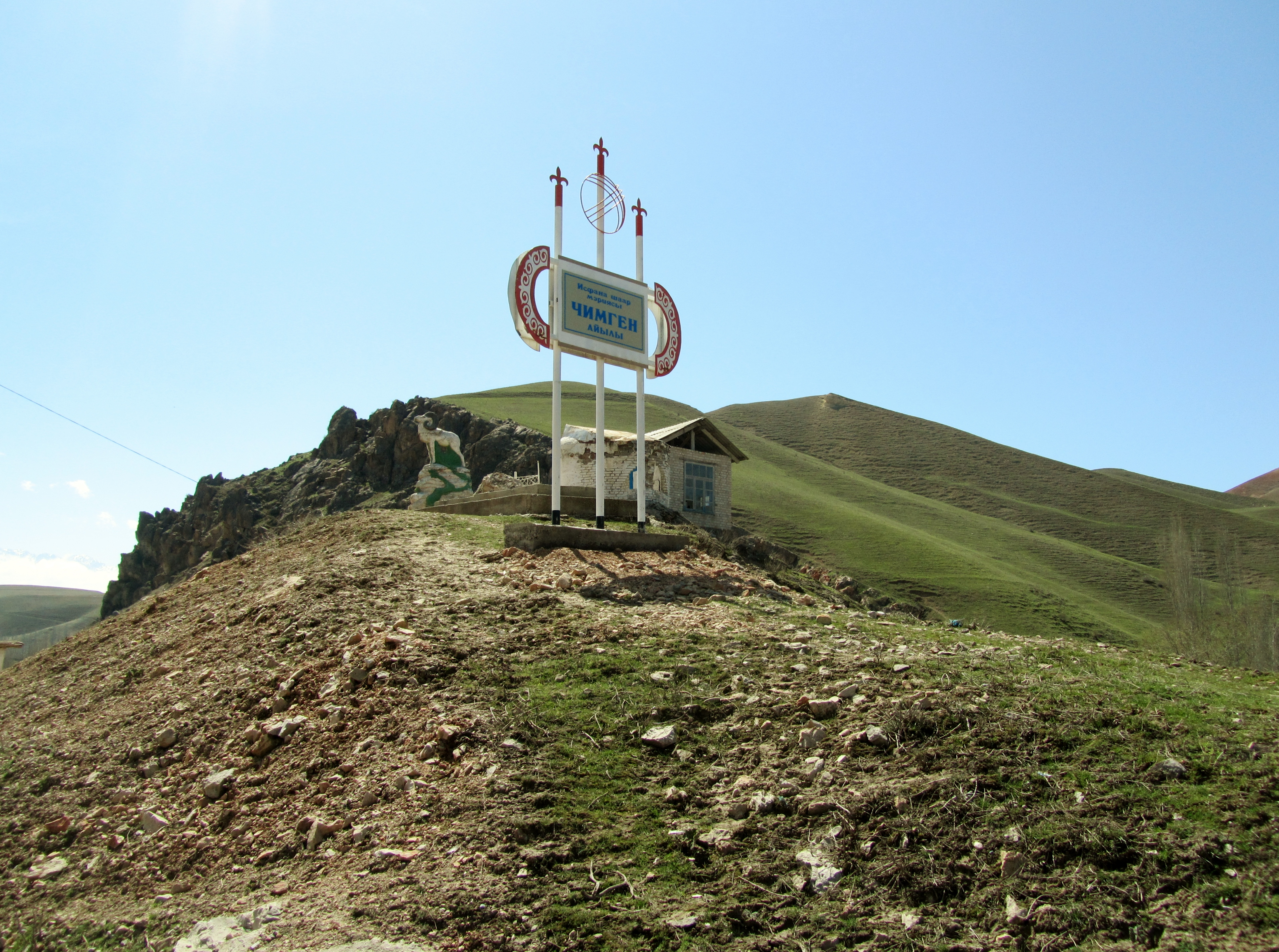 The sign in the northern end of the village of Chimgen. Leilek District, Kyrgyzstan.